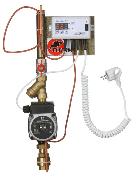 Pump module